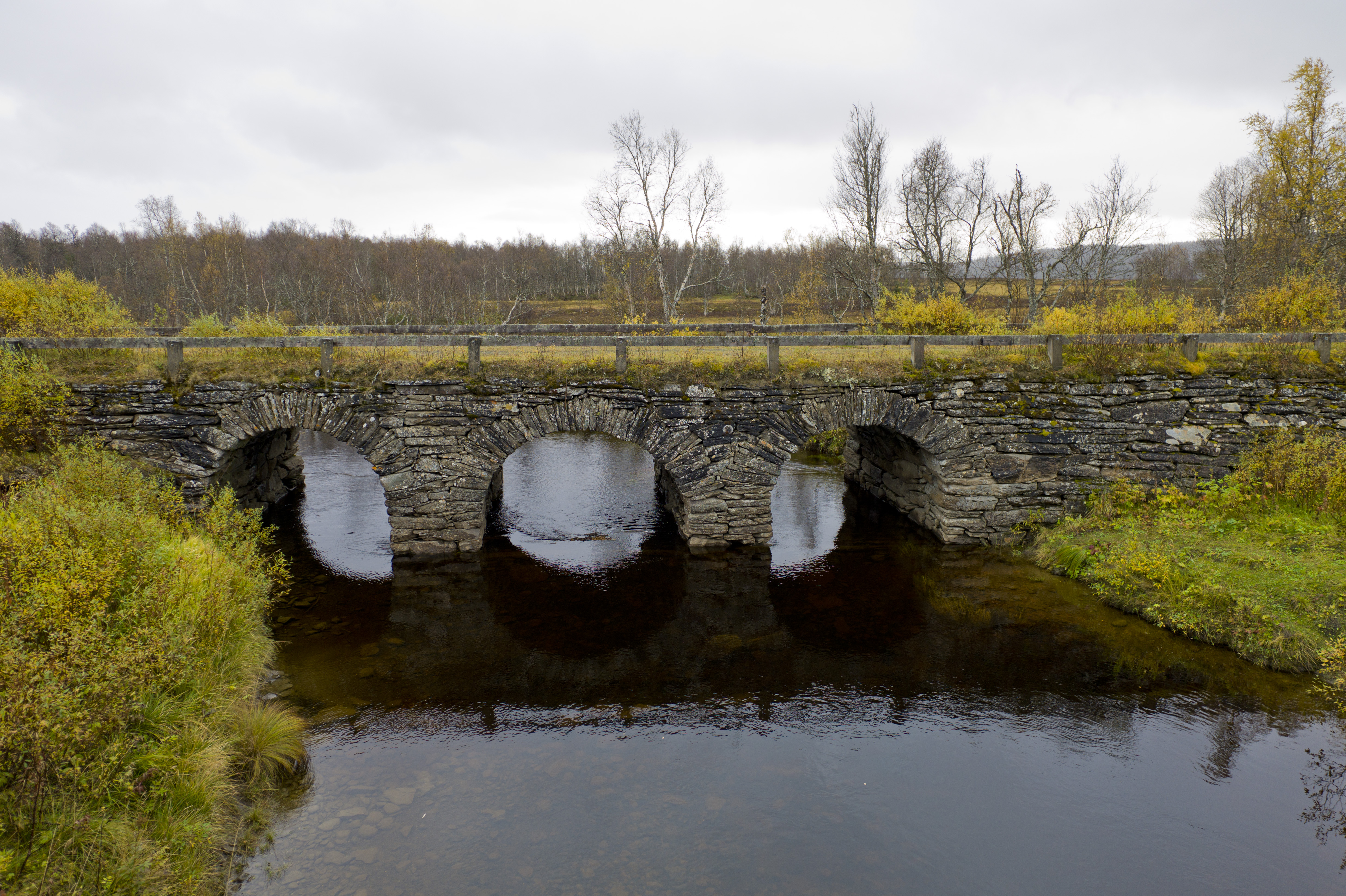 Stone arch bridge along the Skalstugevägen on the river Asån, Sweden, from the mid 1800's.